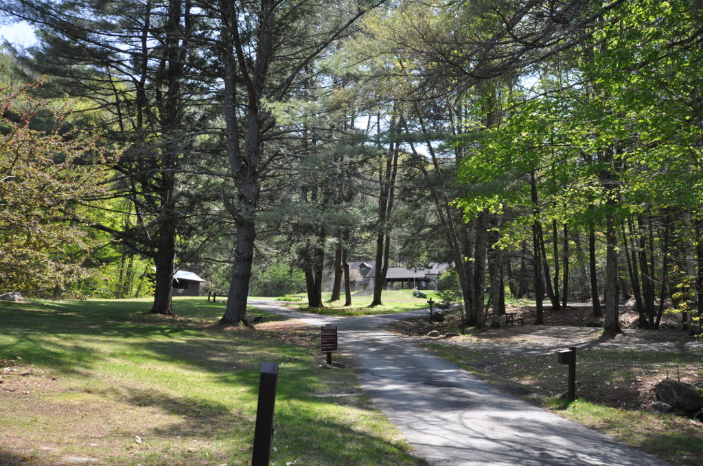 Entrance area at Townshend State Park, Townshend, Vermont.